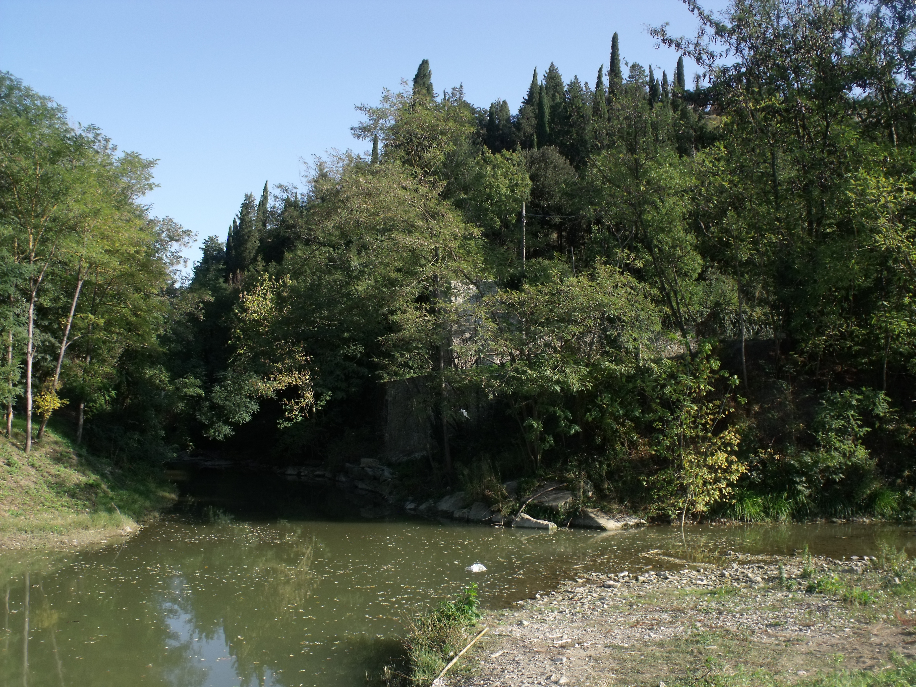 Confluence of the Ema River into the Greve River in Galluzzo, hamlet of Florence, Tuscany, Italy